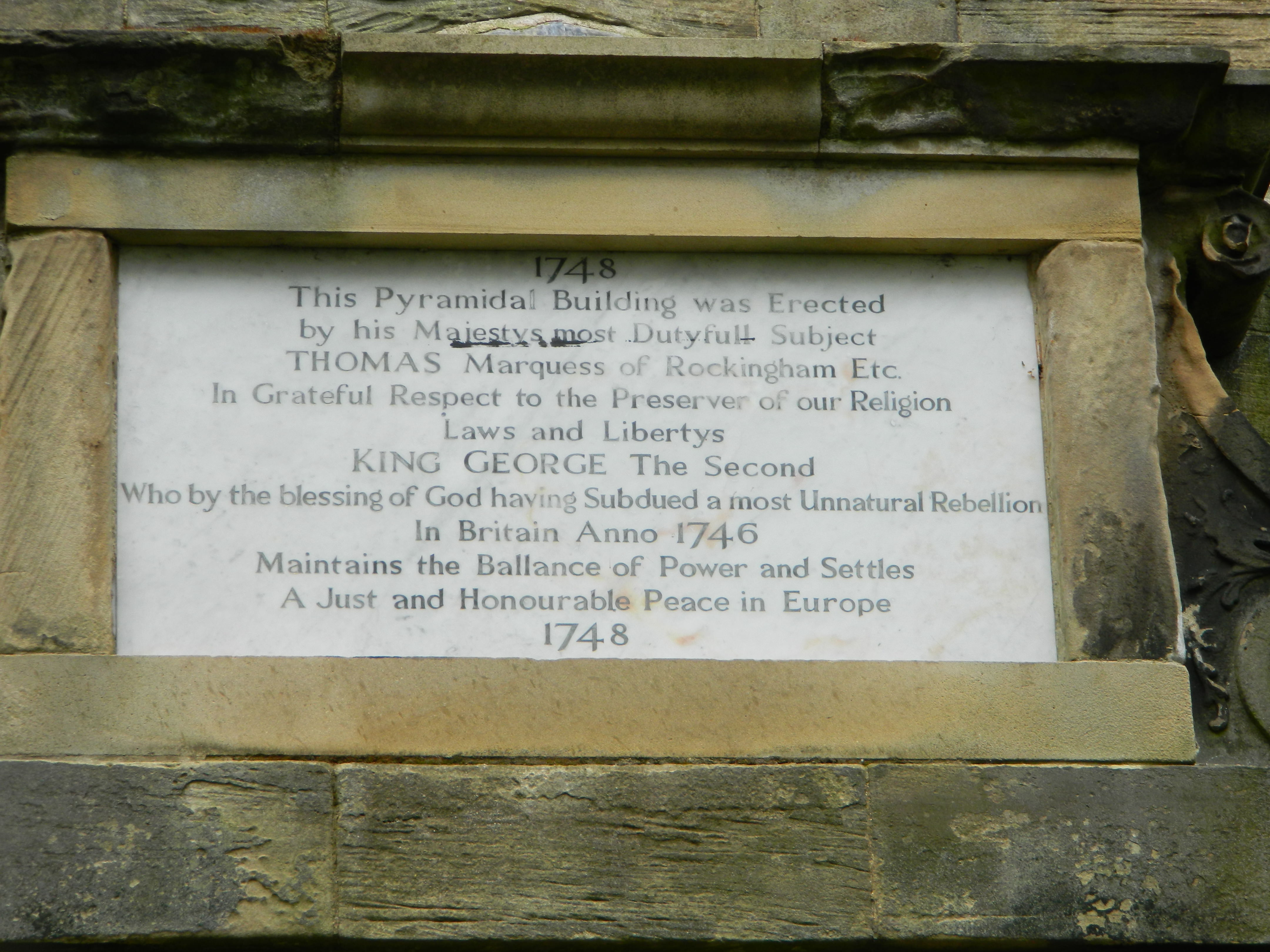 A photograph of the plaque found on the Hoober Stand which is located in Wentworth, Rotherham, South Yorkshire.